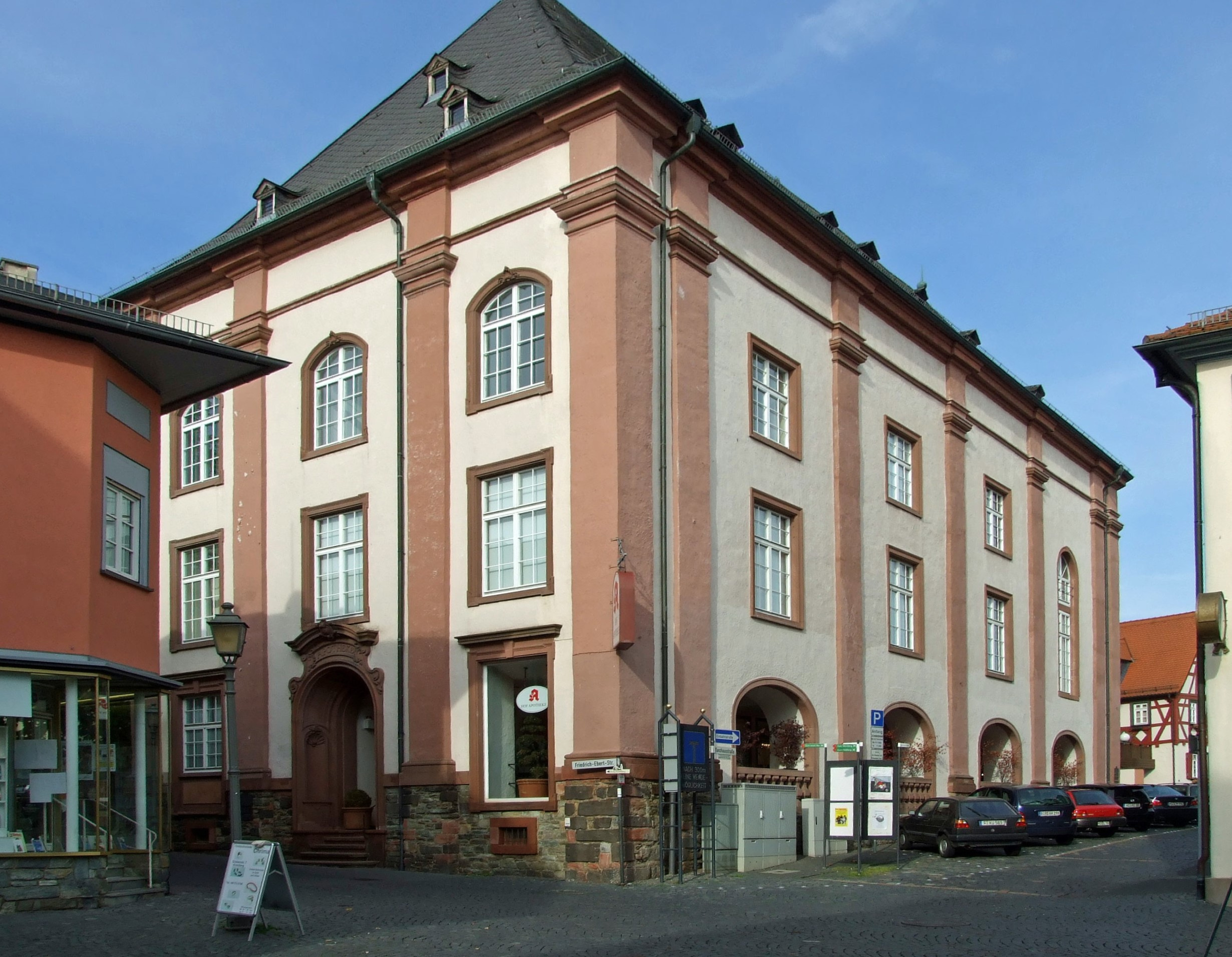 Streitkirche (Quarrel-Church) in Kronberg im Taunus, Germany